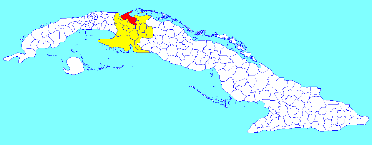 A map of the municipality of Cárdenas (shown in red) within the Province of Matanzas (yellow) and Cuba. Note: Varadero (see file) was an autonomous municipality until 2011, when it merged into Cárdenas.